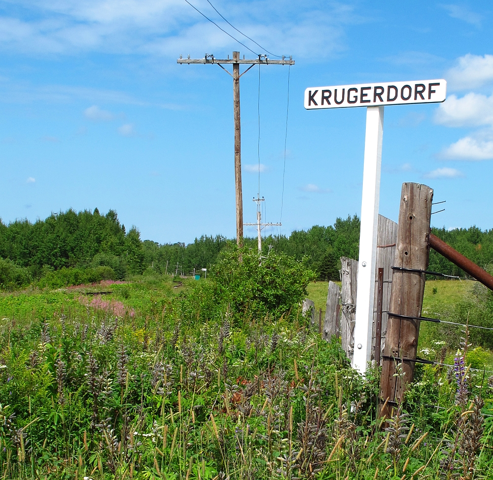 Looking north on the Ontario Northland Railway line at Krugerdorf, Ontario.